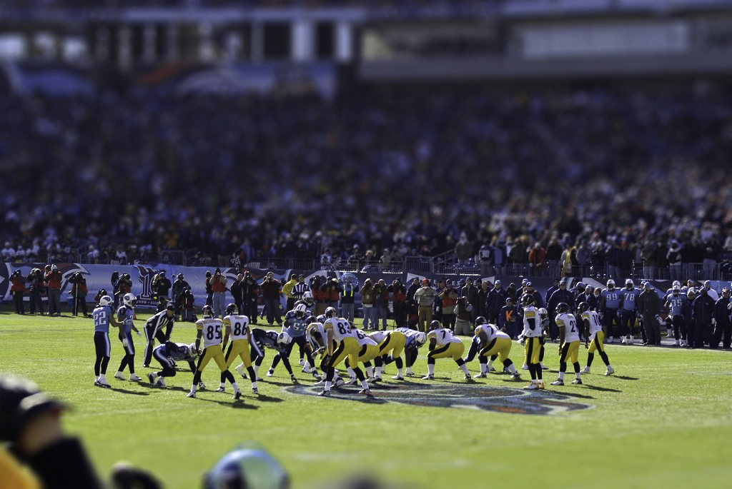 The Pittsburgh Steelers lineup against the Tennessee Titans during the 2008 season. Created @ .